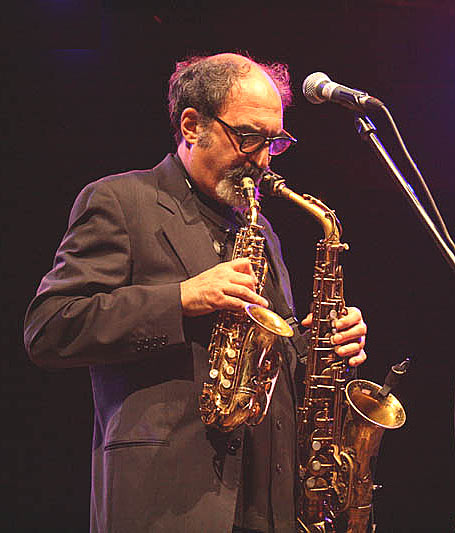 Festival name: Jazz and More Sibiu (Romania) 2007 The band: Roy Nathanson: alto sax, soprano sax and vocals Sam Bardfeld: violin and vocals Curtis Fowlkes: trombone and vocals Tim Kiah: bass and vocals Napoleon Maddox: human beatbox and vocals